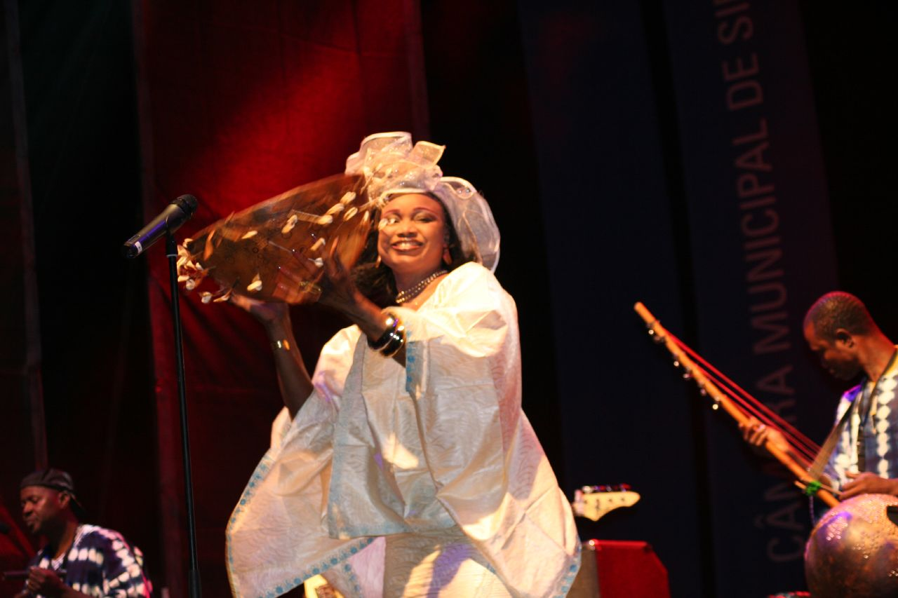 Oumou Sangaré in Sines Portugal 2007